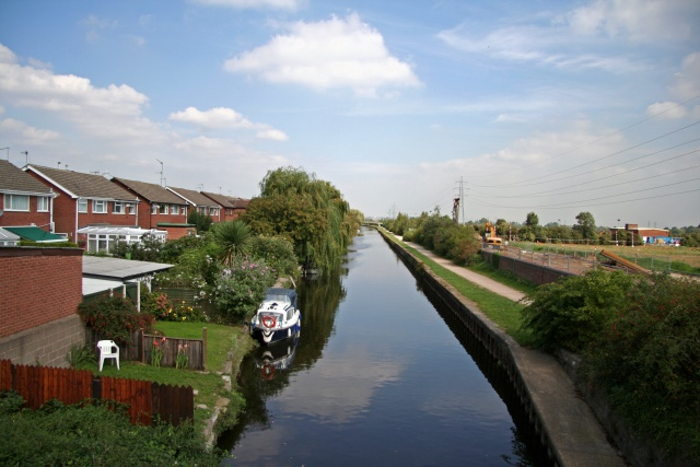 Beeston Canal. Beeston Canal was originally cut to connect the River Trent with the Nottingham Canal so that access could be gained to the centre of Nottingham, the river still being navigable to shallow-draft boats via a second lock at Beeston. Since that time, this second lock has closed and the canal is now the only route which boaters can take before rejoining the river in Nottingham. This photo was taken from the Beeston Turnover Bridge at SK541356 and shows the view NE along the canal, with Beeston Rylands on the left, until it disappears from sight at the Boots footbridge (SK544359).